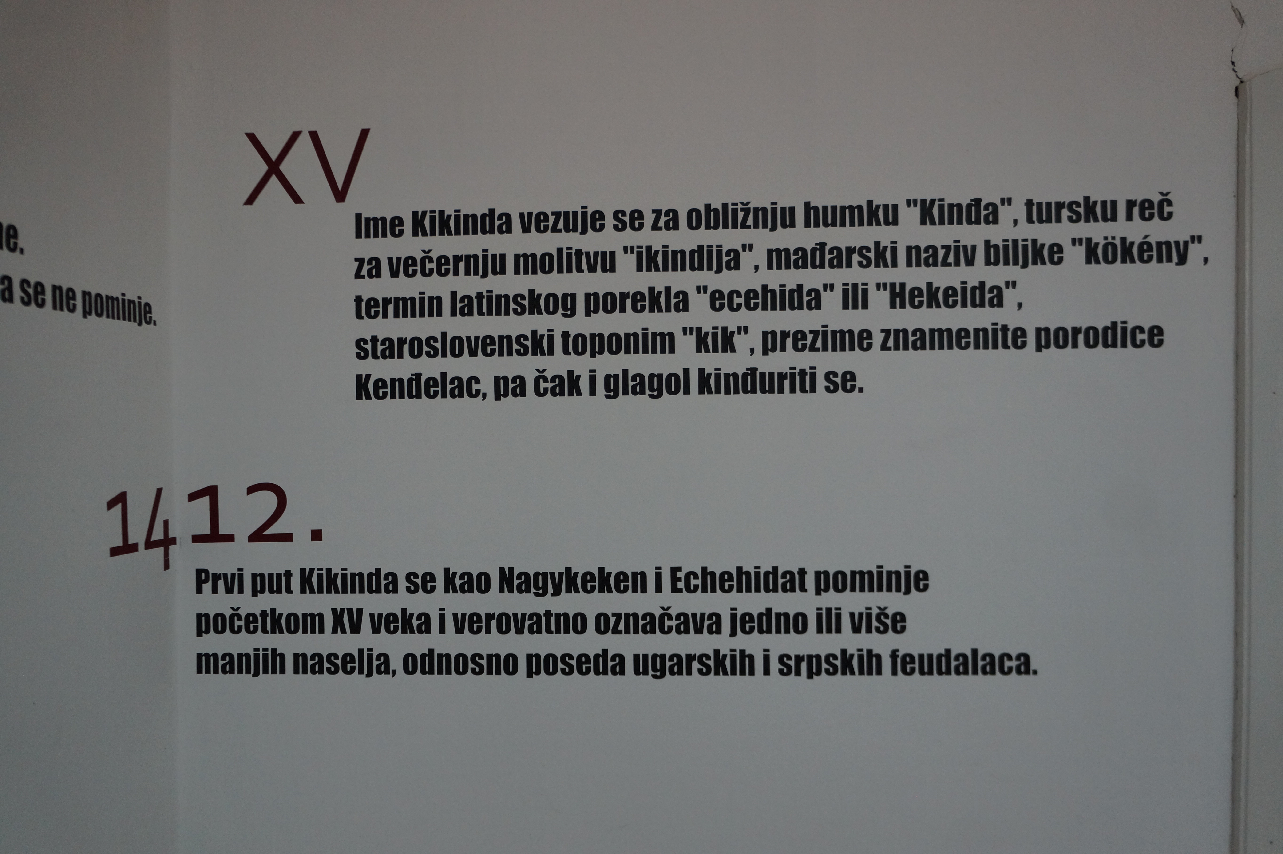 Wall text (in Serbian) in the Kikinda museum in Banat, Serbia, with explanation about the origin of the town's unique name.